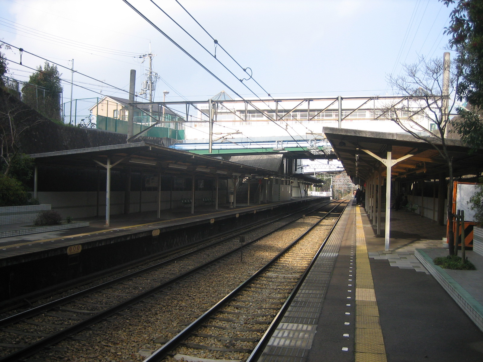 Nose electric railways Uneno station in Hyogo,Japan